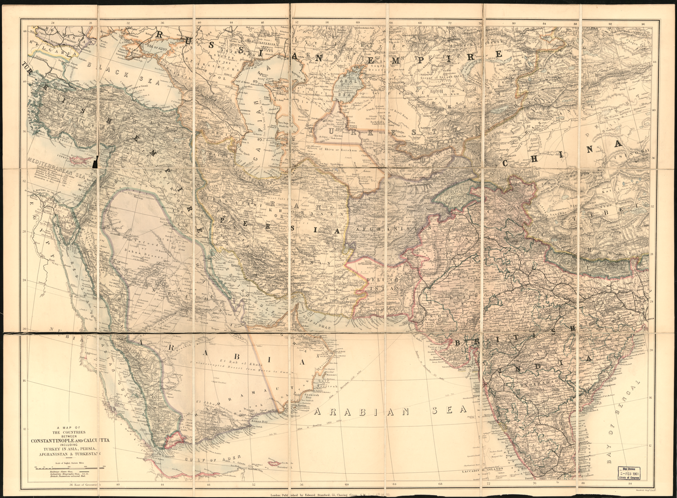 This 1885 map shows the region between Constantinople, capital of the Ottoman Empire, and British India, an area of intense imperial rivalry between the British and Russian Empires in the late-19th century. British possessions are colored in red and include British India, Cyprus, the Aden Protectorate (present-day Yemen), Socotra Island (Yemen), and the northern littoral of the Horn of Africa, which became the protectorate of British Somaliland (present-day Somalia) in 1888. The map shows railroad lines and submarine telegraph cables. The railroad network is at this time more developed in India and the Caucasus region of the Russian Empire than in the other areas shown on the map. Distances between major port cities are indicated in miles (one mile = 1.61 kilometers) on the telegraph lines and in the table showing distances between the Egyptian ports of Alexandria and Suez and the European ports of London, Marseilles, and Brindisi, Italy. The map is by Edward Stanford Ltd., a London map seller and publishing house established in 1853 by Edward Stanford (1827–1904), known for its London shop catering to famous explorers and political figures. Arabian Gulf; Arabian Peninsula; Himalaya Mountains; Persian Gulf